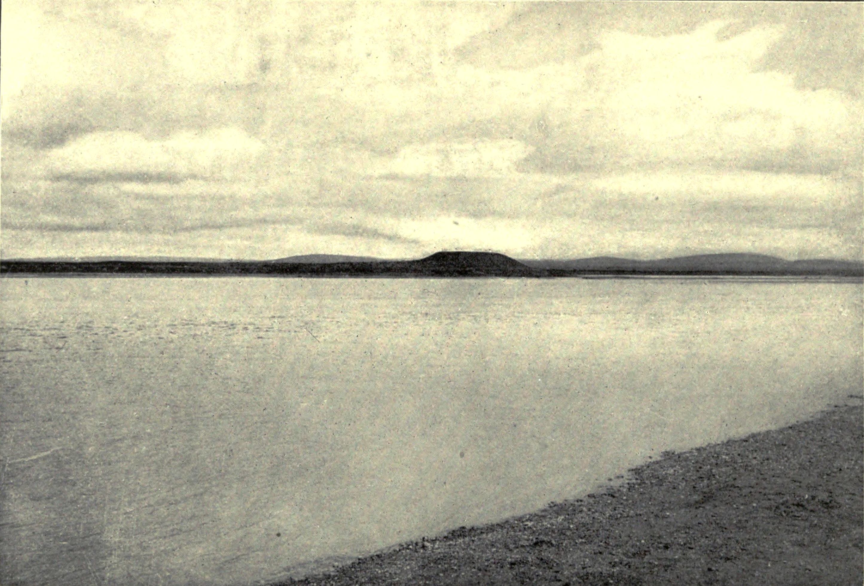 David George Hogarth. Accidents of an antiquary's life. 1910